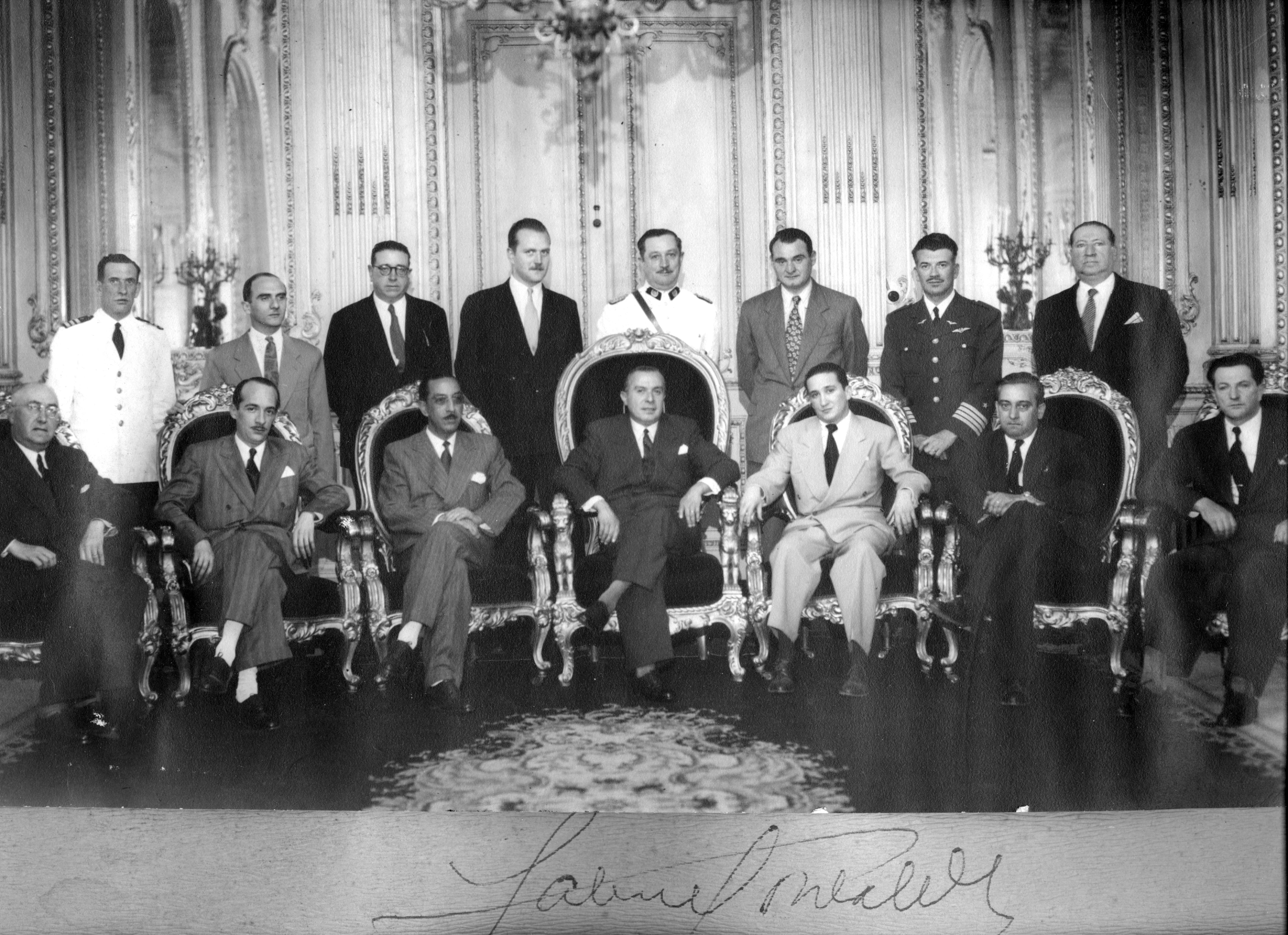 Deputy Minister's Cabinet of Chilean President Gonzalez Videla. Indentified politicians, fron left to right: 2: Raul Fernandez Longe; 4: Gabriel Gonzalez Videla; 5: Manuel Trucco Gaete